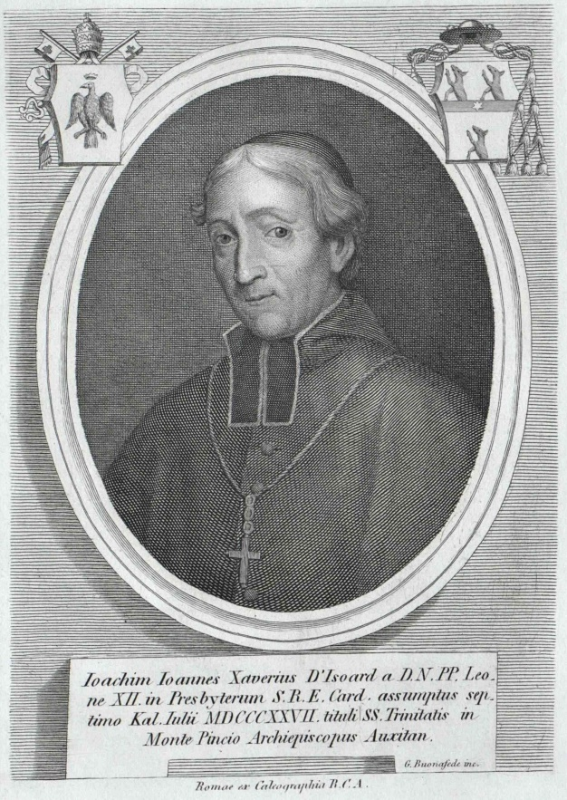 Kardinal Joachim-Jean-Xavier d’Isoard (1766-1839)